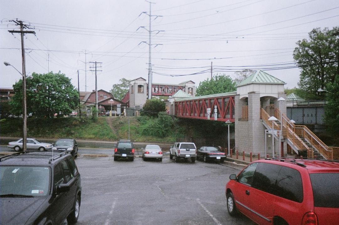 Looking east at two of some pedestrian bridges at Huntington (LIRR station) in Huntington Station, New York. One over New York State Route 110 on the north side of the railroad bridge, and the other over the tracks near the station house. A third pedestrian bridge exists on the south side of the railroad bridge.